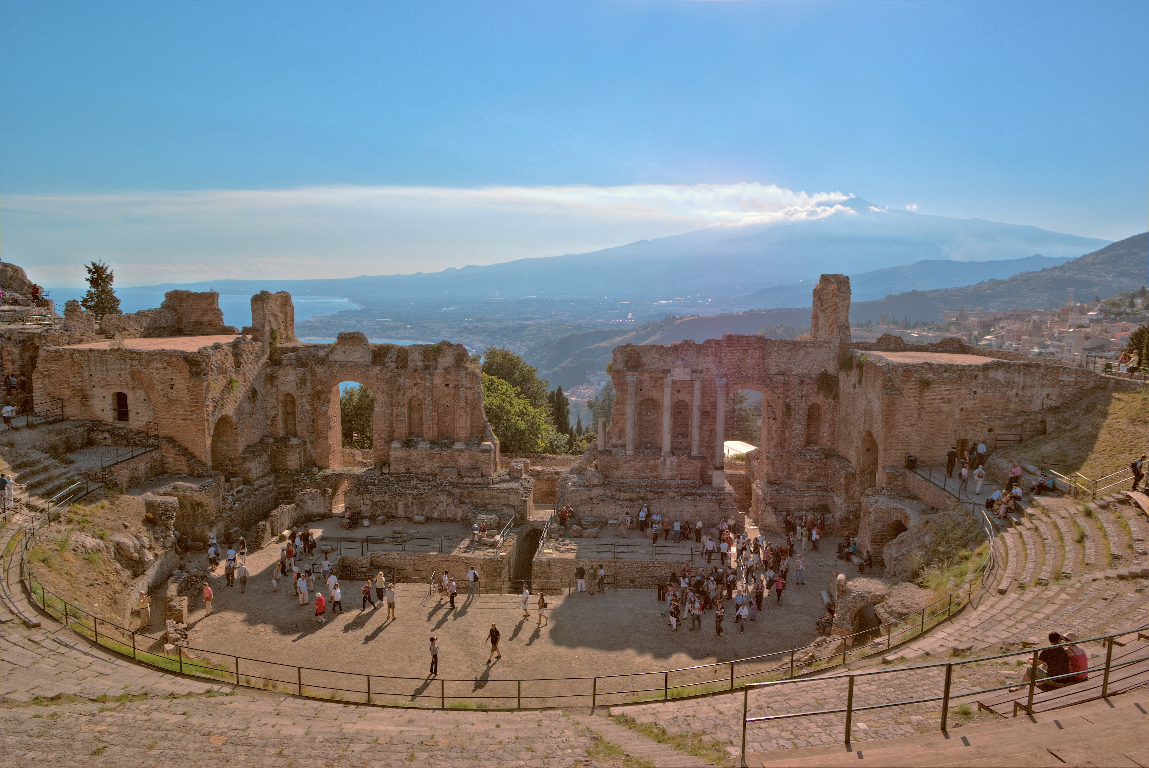 Italy, Sicily, Taormina, ancient theatre